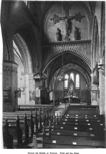 Stadtkirche Teterow: Interior view, 1902